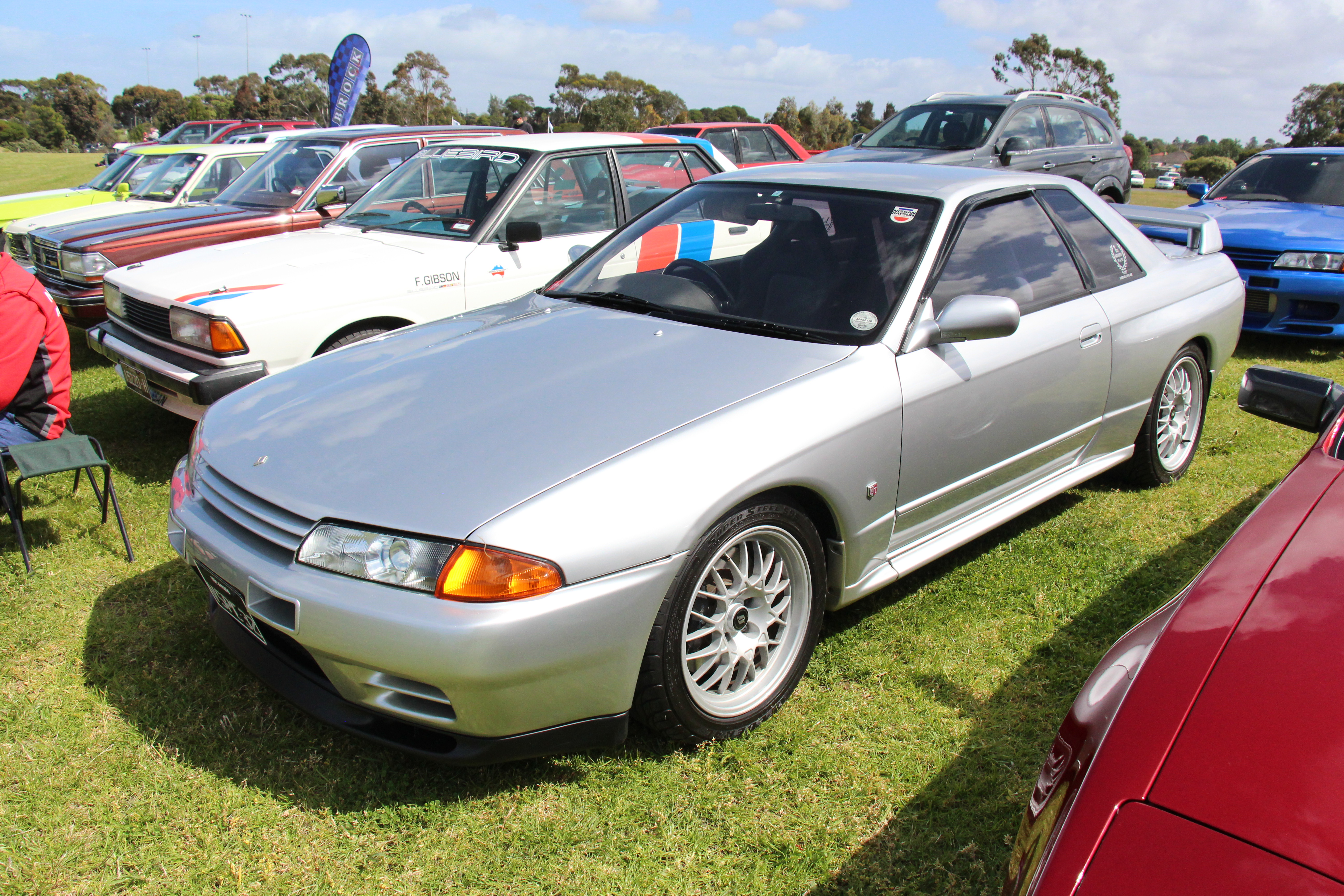 The R32 Skyline was built from 1989-94. It was available as either a 2 door coupe or 4 door hardtop sedan. The upspec models got a 2.6 litre 6 cyl and the GTR got a twin turbo version producing over 300hp. It also got 4WD, big brakes, aluminium front guards and bonnet and front and rear guards were flared. The R32 GTR dominated Japanese Touring car races and in Australia it was nicknamed Godzilla, because it dominated there too, winning the Bathurst 1000 classic in 1991 and 1992 To celebrate the success of the GT-R in both Group N and Group A racing, Nissan introduced the Skyline GT-R V·Spec (Victory Specification) package in 1993. The V·Spec added Brembo brakes, lightweight aluminium bonnet and front bumpers from the 'Nismo'. The cars also replaced the standard 16" wheels with 17" BBS wheels with 225/45R17 tyres In 1994, the Skyline GT-R V·Spec II was released, with the only change being wider 245/45R17 tyres. Standard R32 GTRs built; 40390 Nismo GTRs; 560 V-Spec GTRs; 1453 V-Spec II GTRs; 1303 N1 Race version; 228